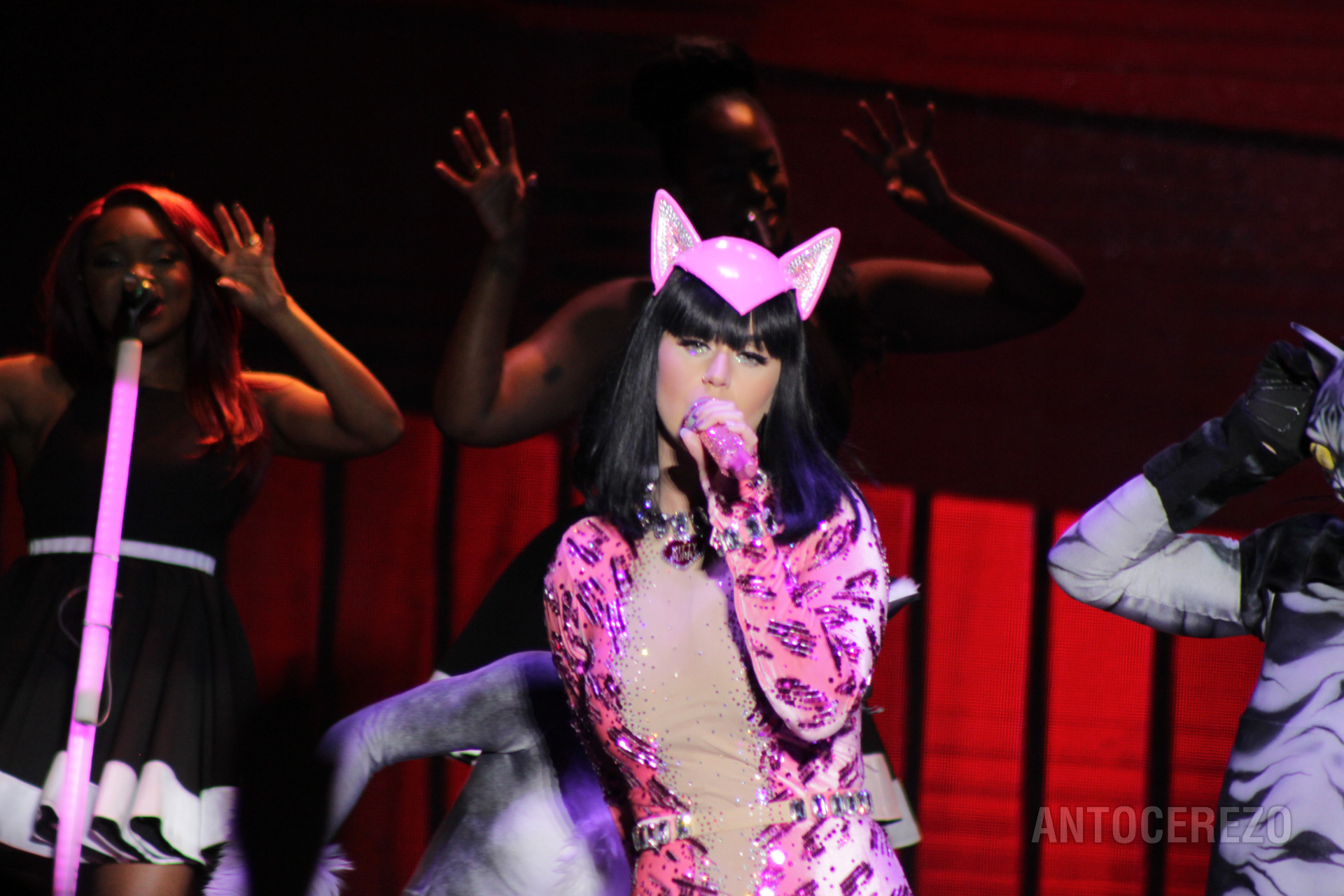 Katy Perry - The Prismatic World Tour Chile